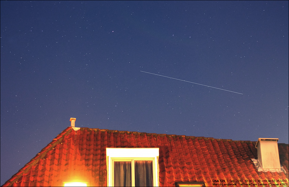 KH-12 Keyhole photo-reconnaissance satellites can on occasion be very easily seen by the naked eye. This photograph shows a bright pass of the KH-12 USA 129 (96-072A), photographed on 3 September 2010 from Leiden, the Netherlands, by amateur satellite tracker Marco Langbroek. The satellite has drawn a bright streak amidst the stars of Pegasus in this 10 second exposure (movement was from right to left).